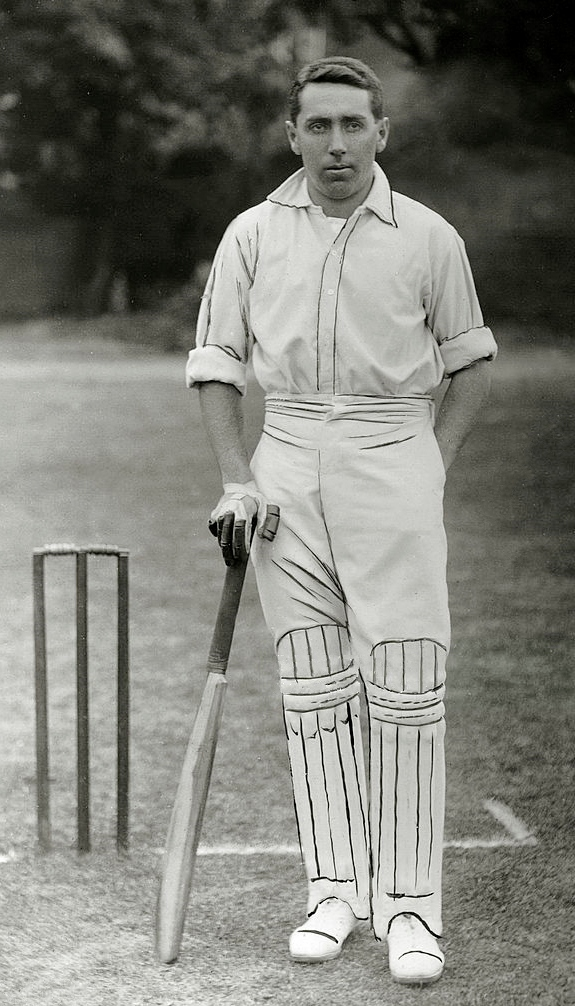 Sport, Cricket, pic: circa 1905, Gordon Charles White, (1882-1918) Transvaal and South Africa, who played in 17 Test matches for South Africa between 1905-1912, He was a middle order right hand batsman and leg break bowler